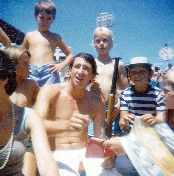 Derek Randall, English cricketer, signing autographs.